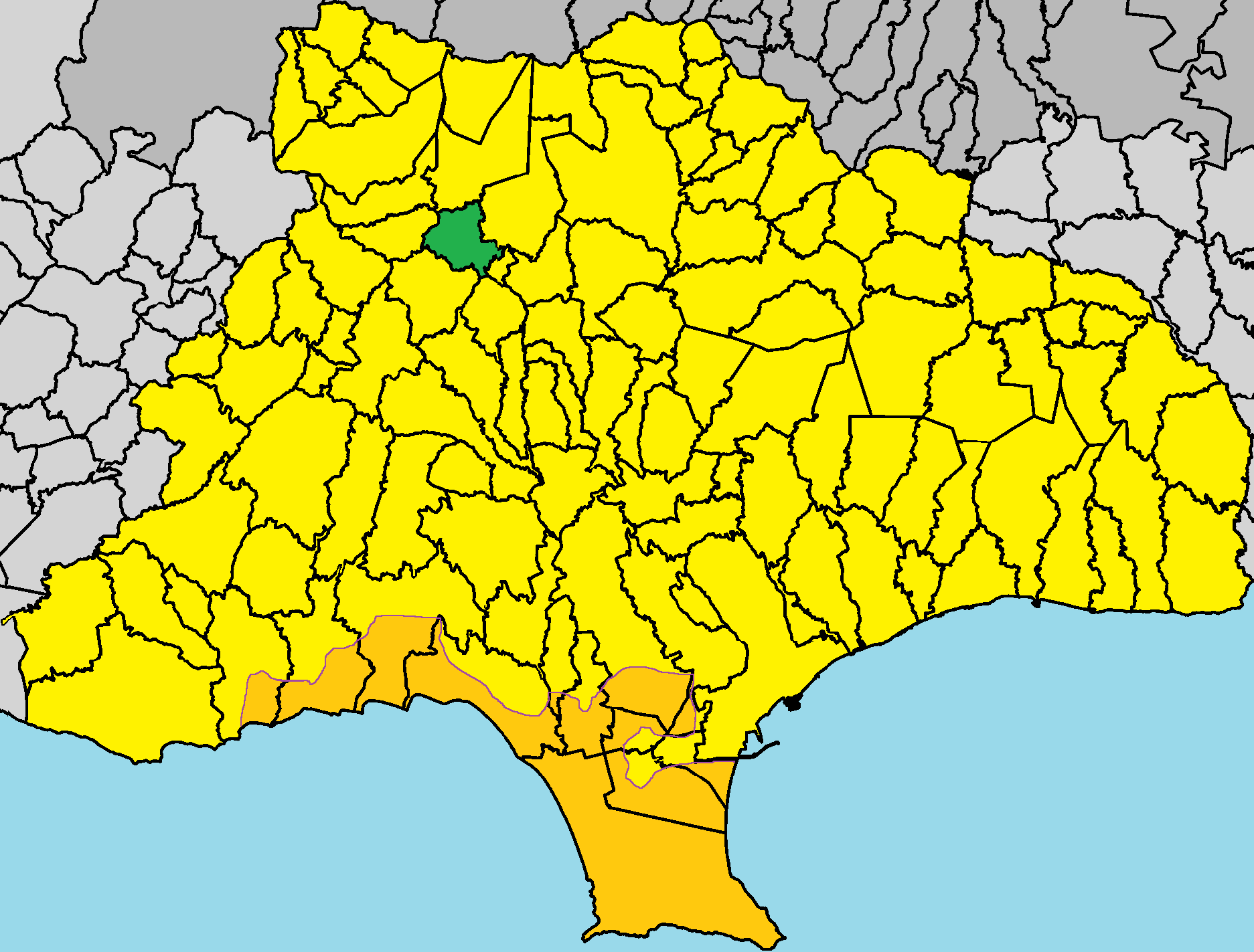 Pera Pedi in Limassol District.